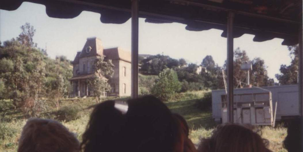 View of "Psycho" house from tram, cropped